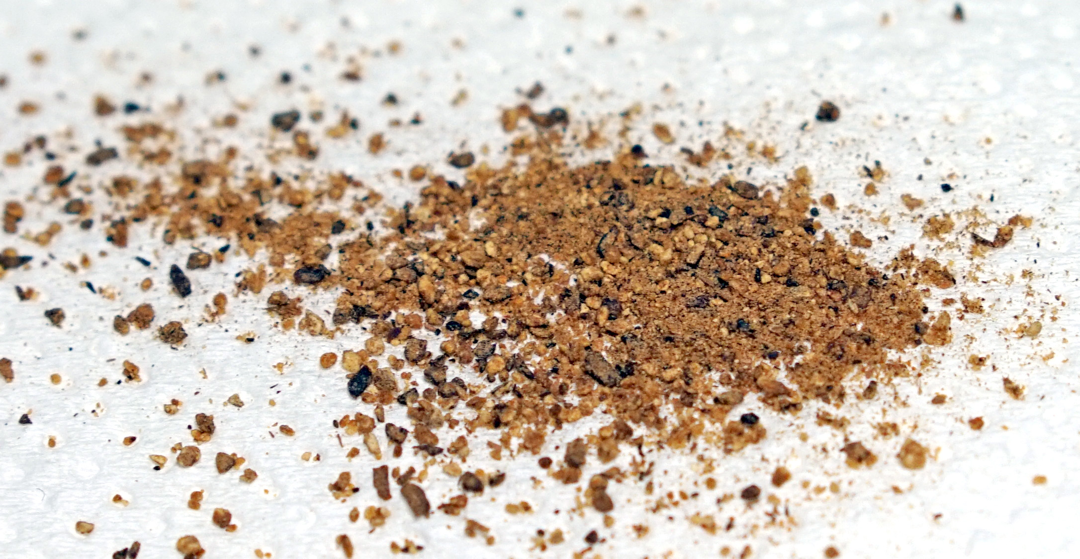 Nutmeg spice.